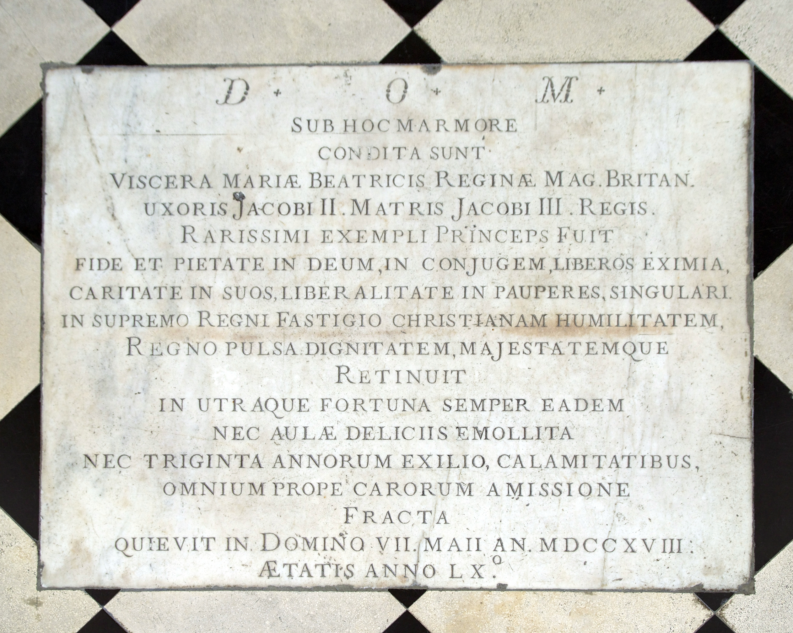 Here are buried the viscera of Mary Beatrice, queen of Great-Britain, wife of James II.... Ground of Chapel of the College of the Scots in Paris.